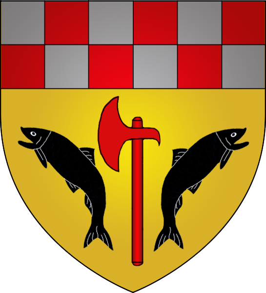 Coat of arms of the former municipality of Kautenbach, Luxembourg